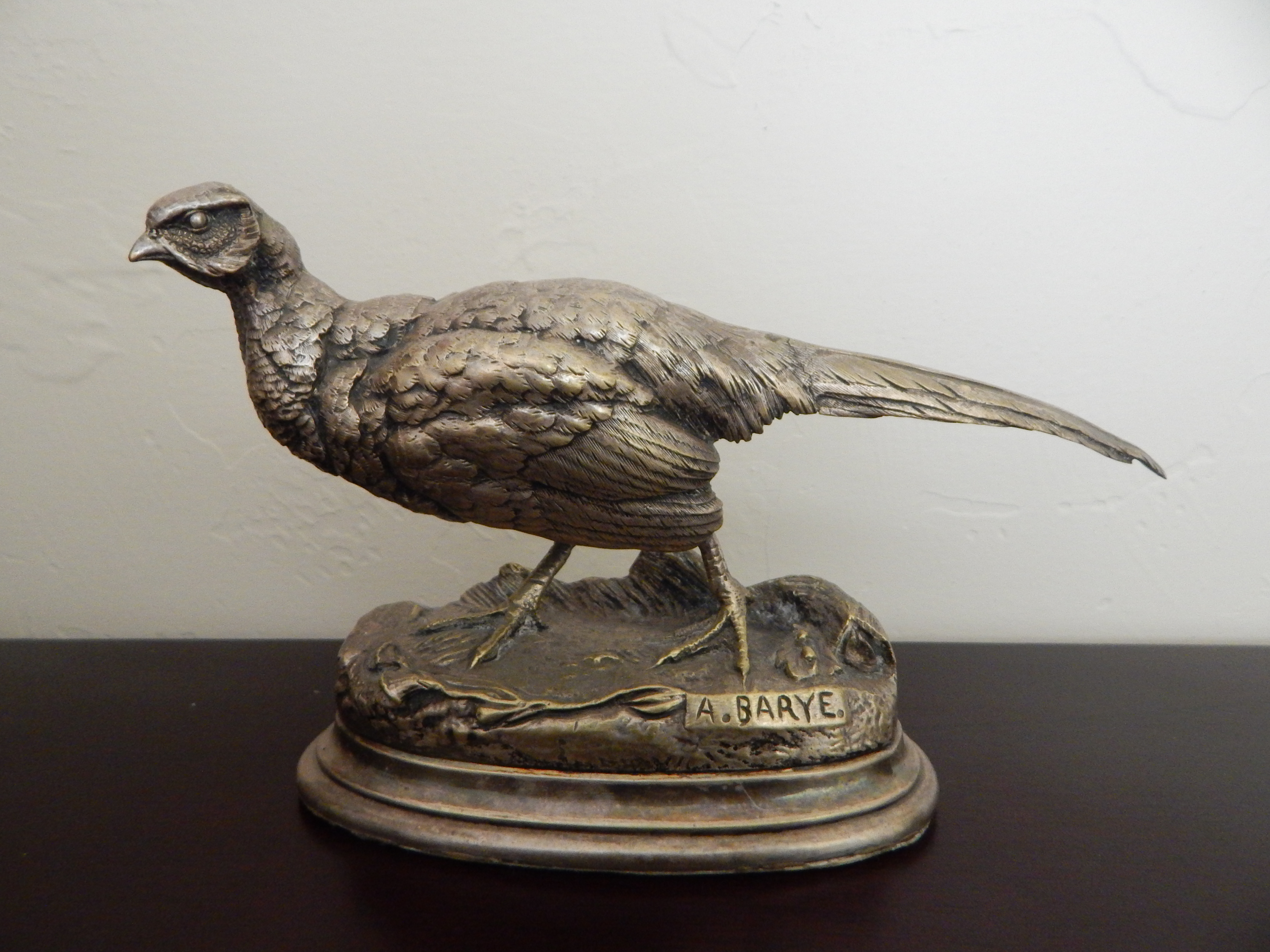 A silvered bronze sculpture of a bird by French animalier sculptor Alfred Barye (attribution).